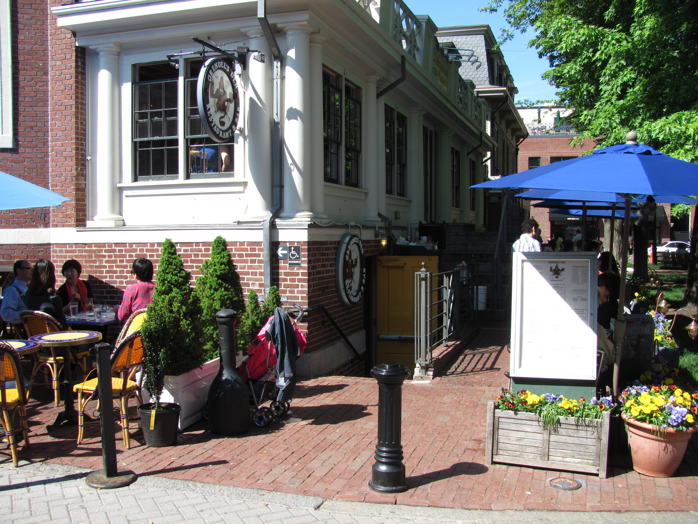 Grendel's Den, Cambridge Massachusetts